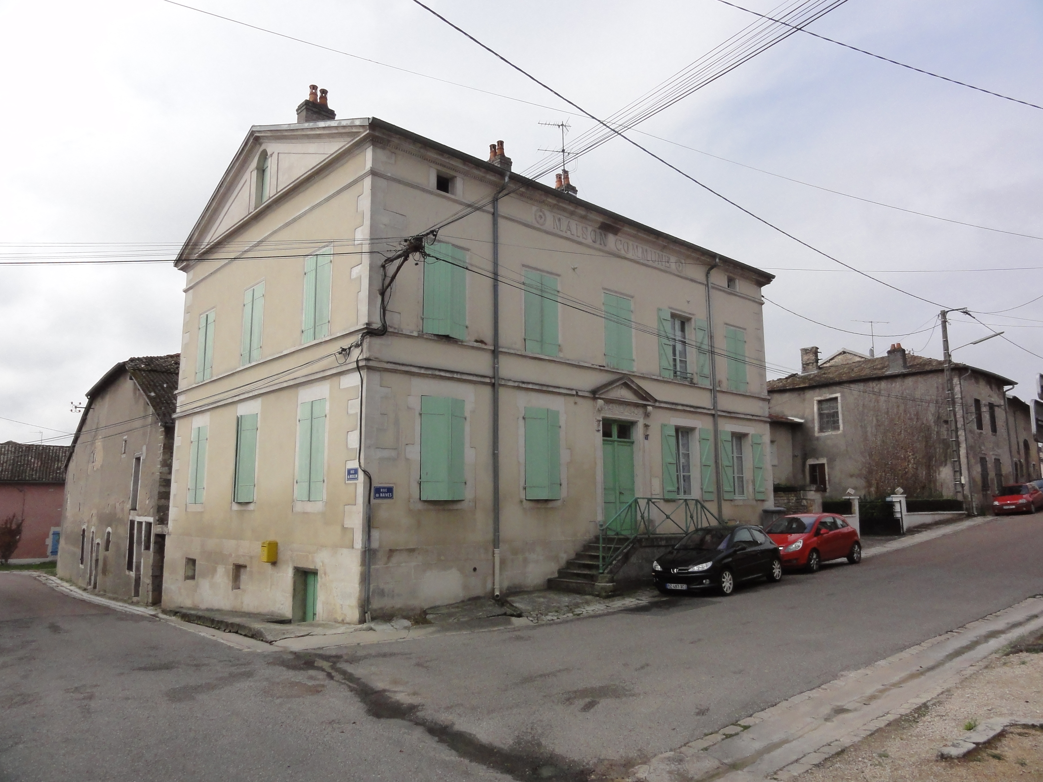 Ourches-sur-Meuse (Meuse) maison commune